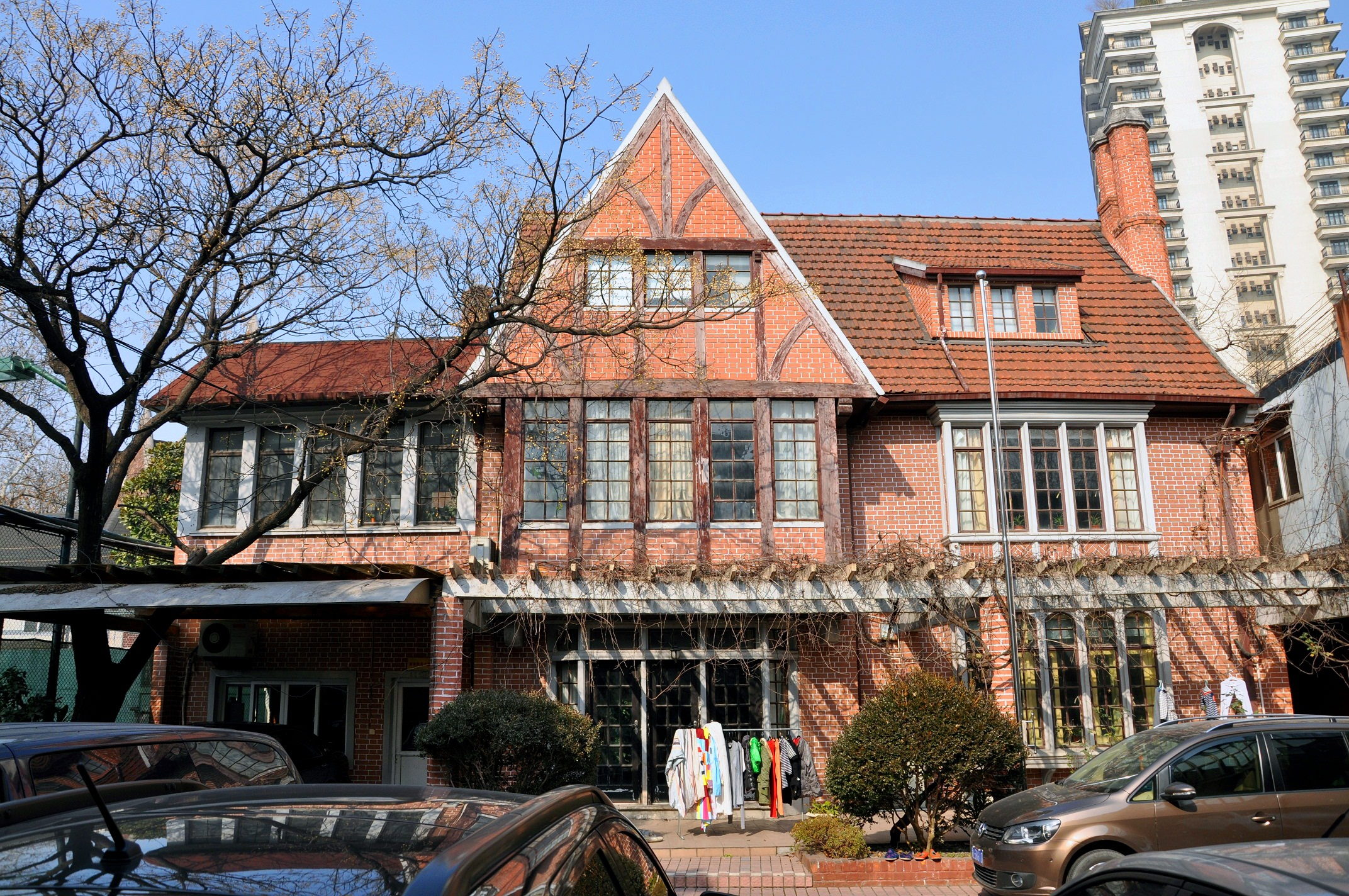 Ürümqi Road No. 64